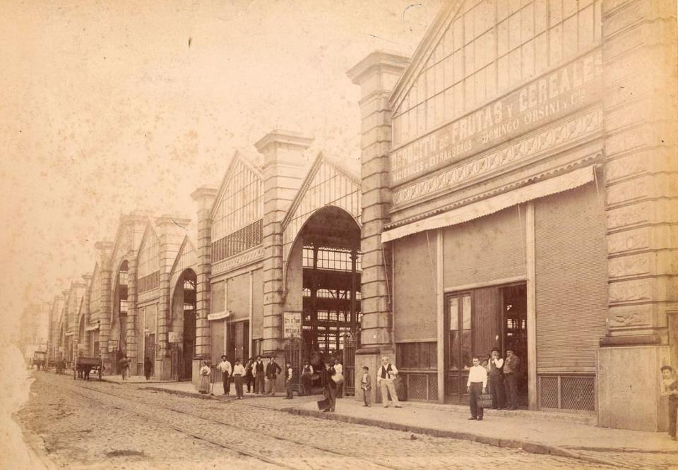 Mercado del Abasto, fines del siglo XIX.